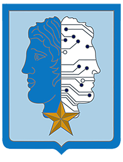 Logo of the Italian Army Signal Command Cybernetic Security Unit